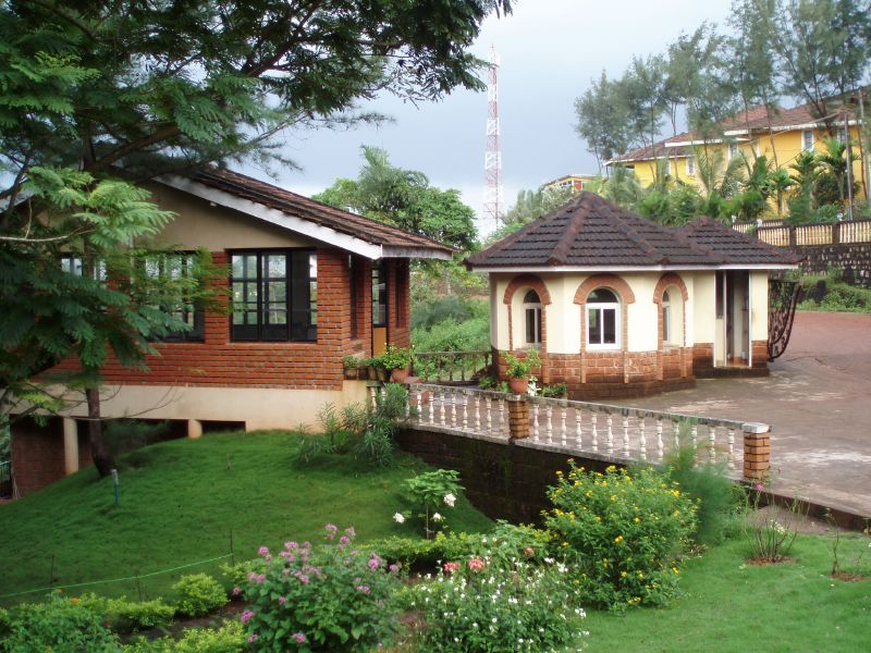 A traditional House of a Mangalorean Catholic family in Mangalore